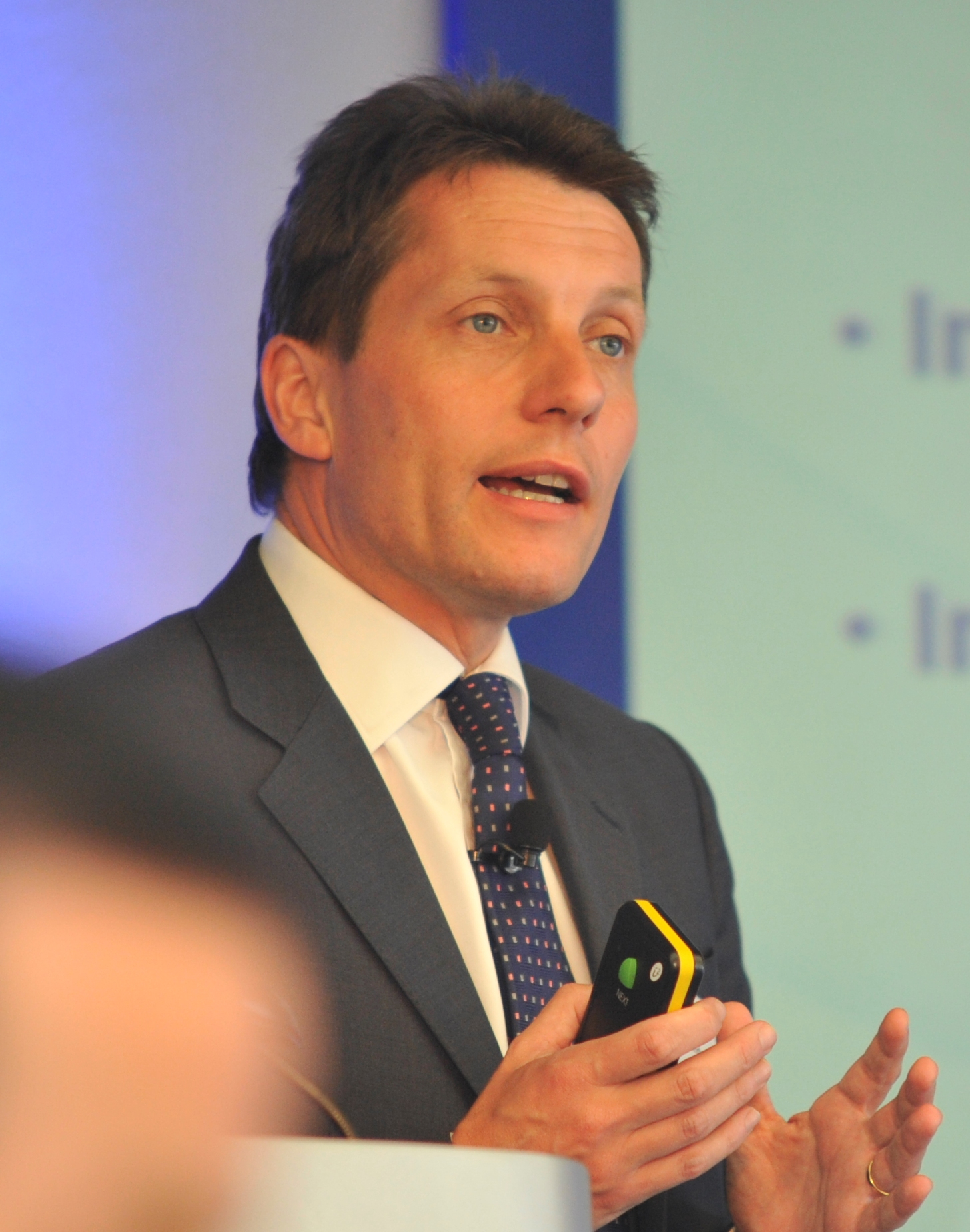 Andy Hornby speaking at the opening of the Alliance Healthcare (Distribution)Ltd Service Centre Opening in Exeter